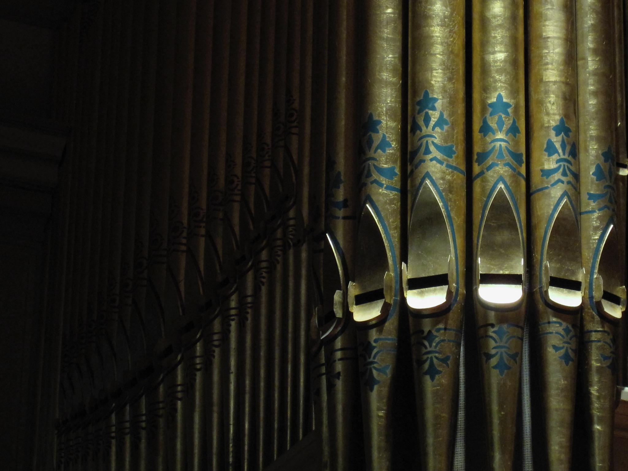 The longest pipe is over 8’